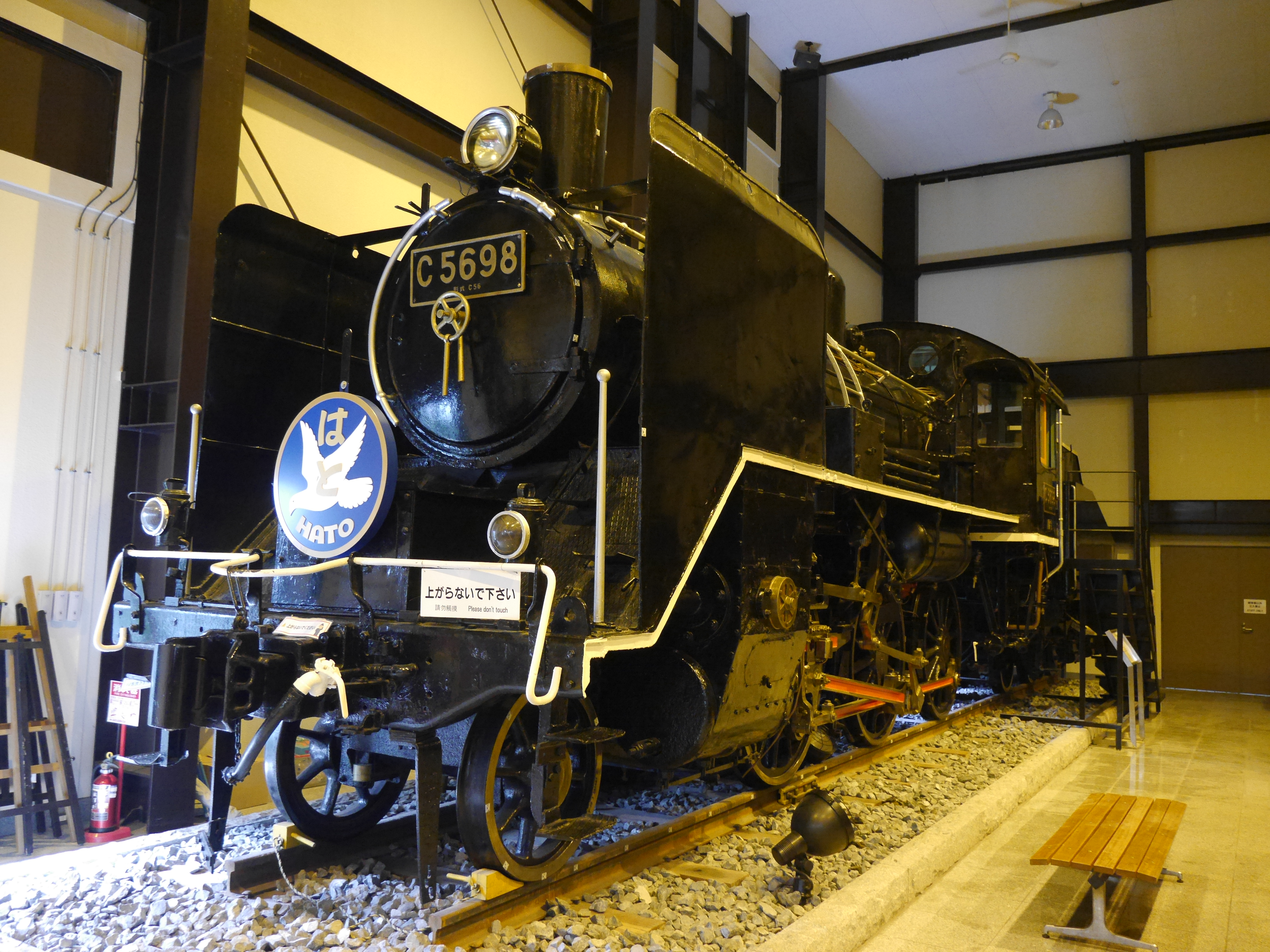 C56 98 steam engines at the 19th century hall adjacent to Torokko Saga station